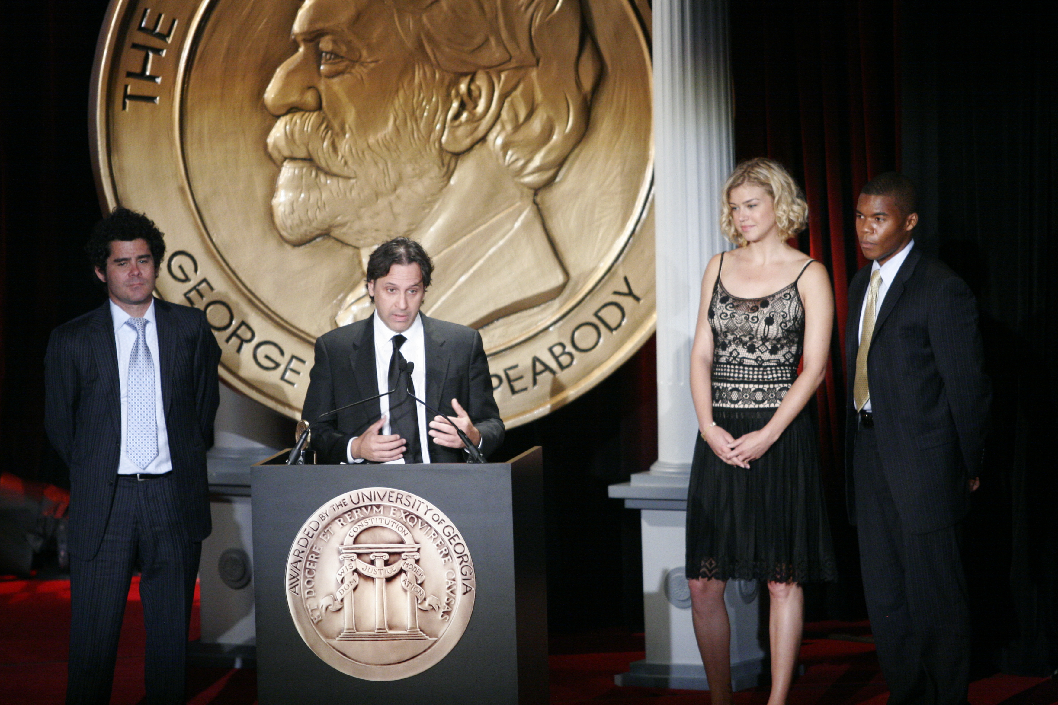 Jeffrey Reiner, Jason Katims, Adrianne Palicki and Gaius Charles, 66th Annual Peabody Awards Luncheon Waldorf=Astoria Hotel New York, NY USA June 4, 2007